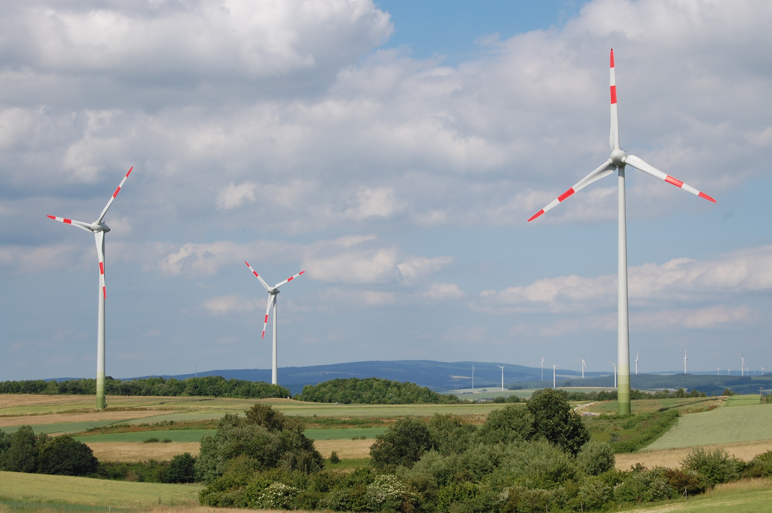 Part of the wind park Mehringer Höhe near Lorscheid in the Hunsrück landscape, Germany.